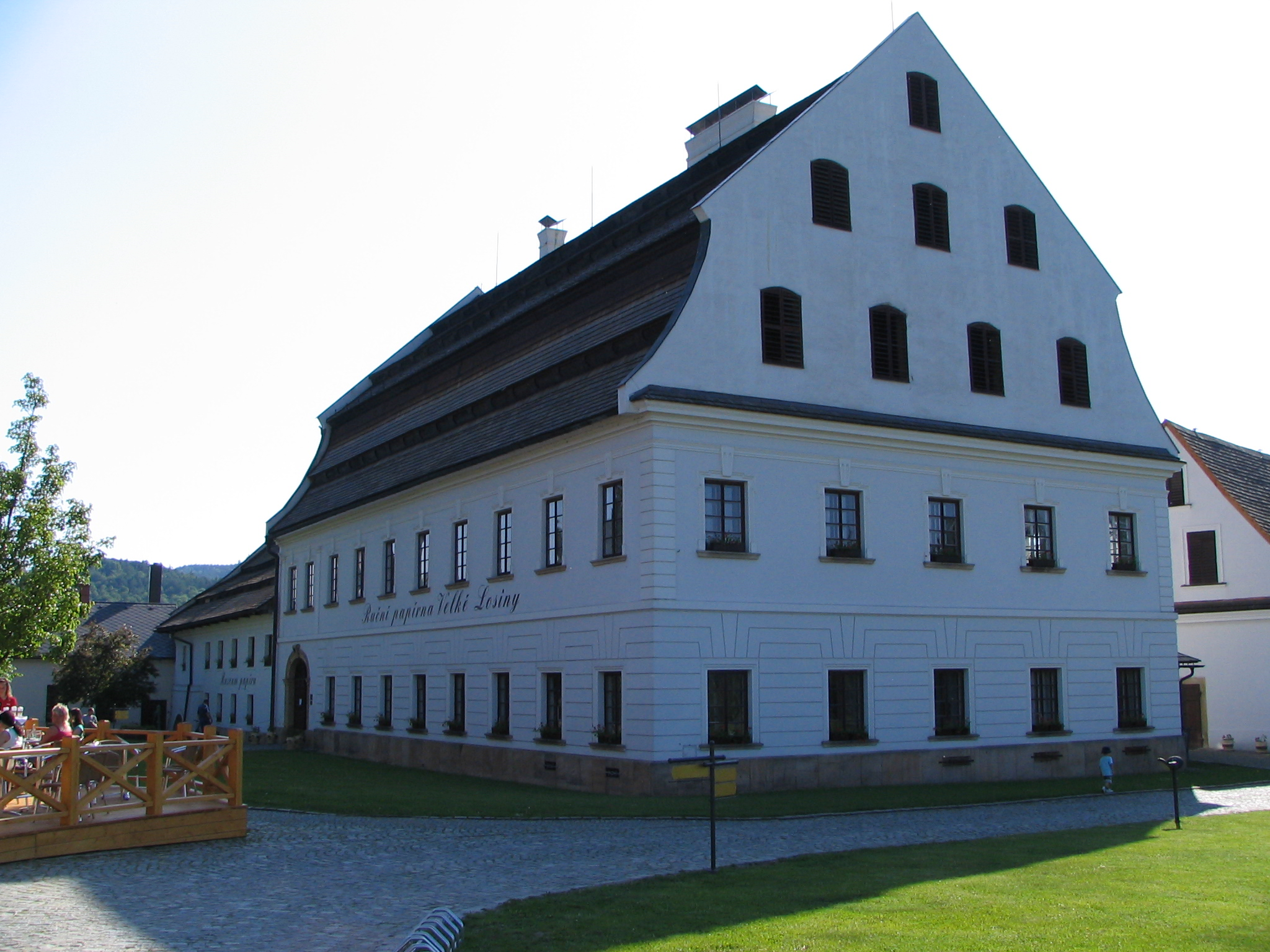 Velké Losiny manual papermill